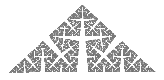 Von Koch Curve based on an angle of 85 degrees between segments